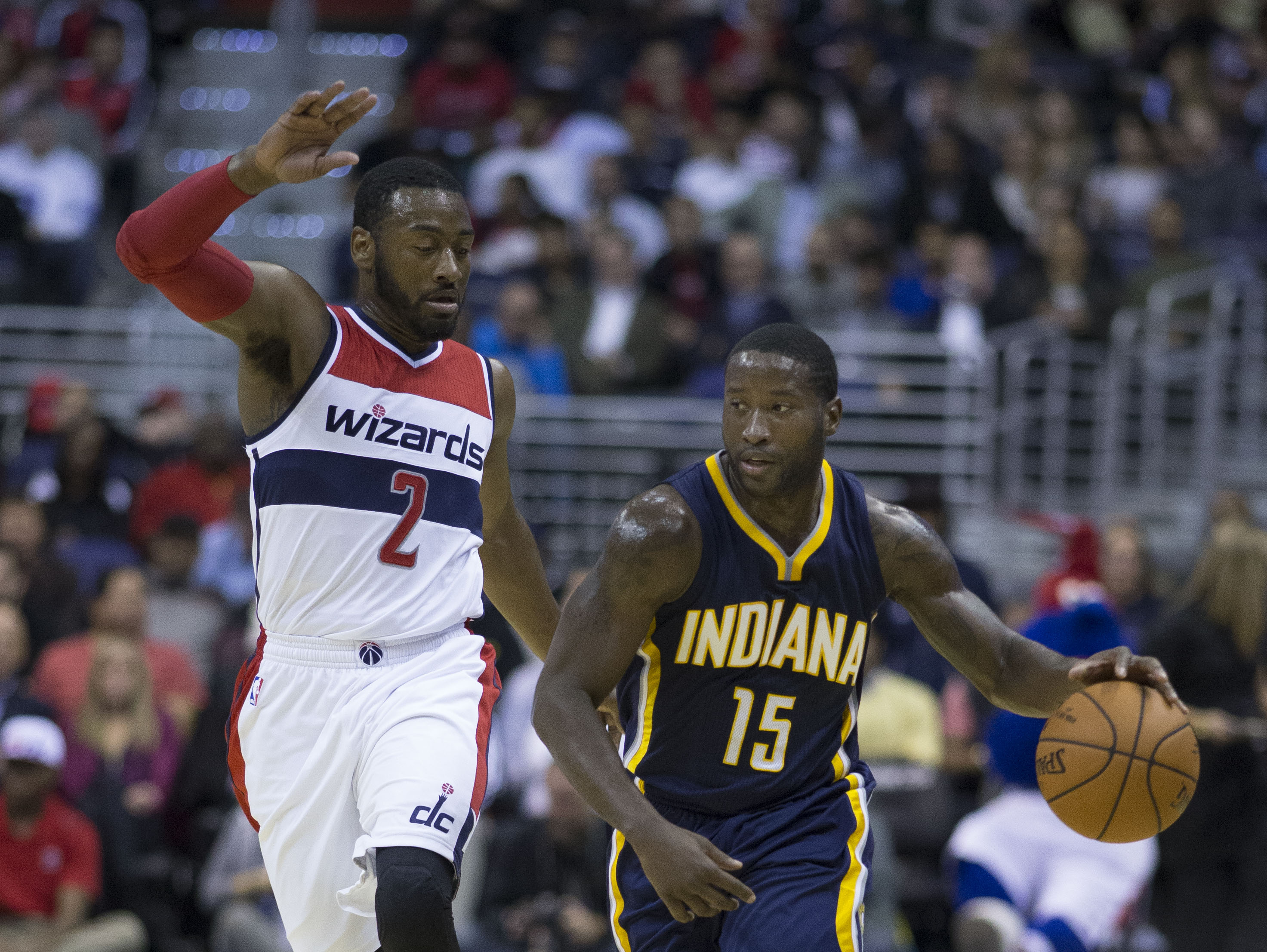 Pacers at Wizards 11/05/14